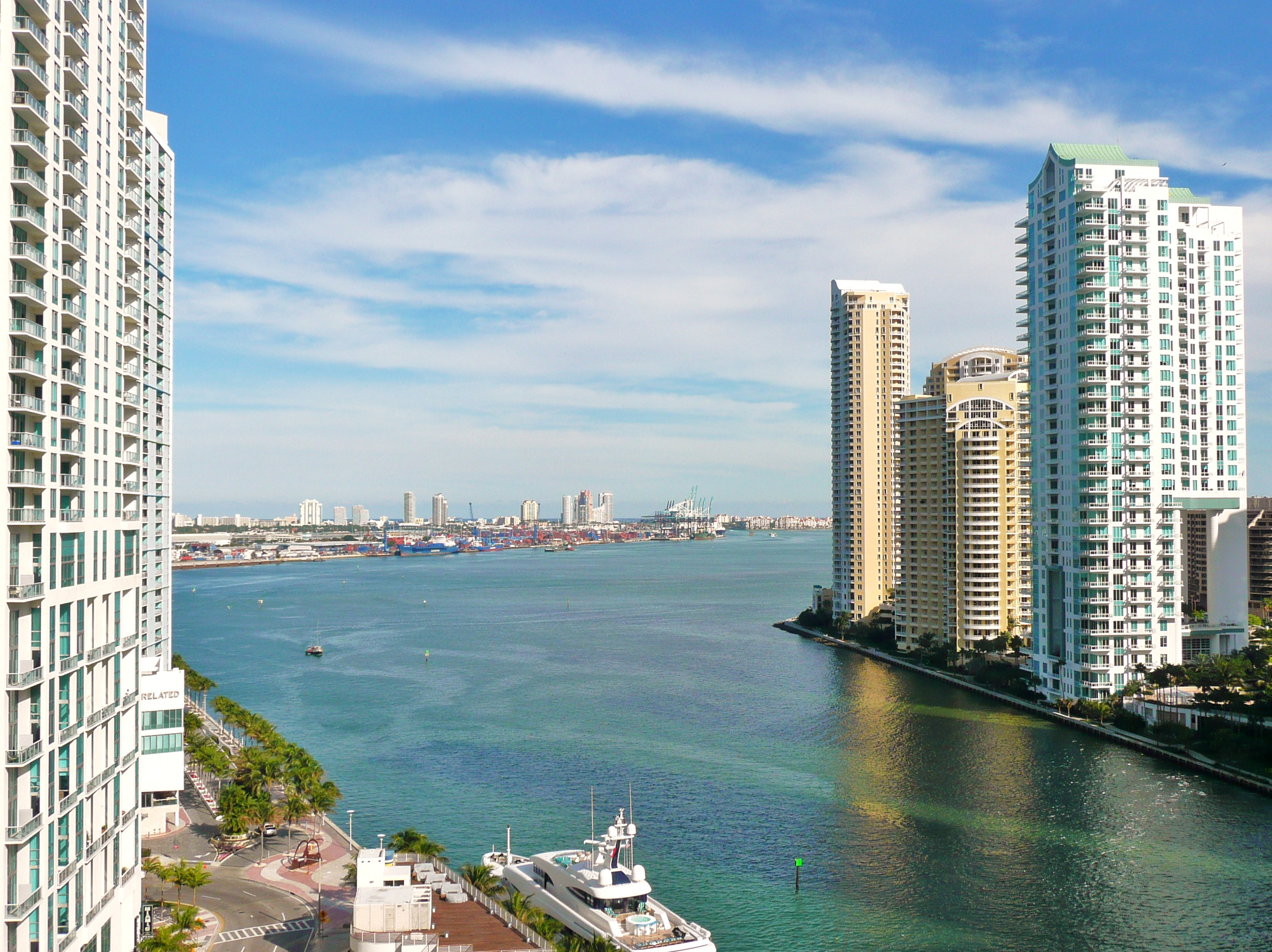 Digital photo taken by Marc Averette. The mouth of the Miami River in Downtown Miami, Florida, United States.